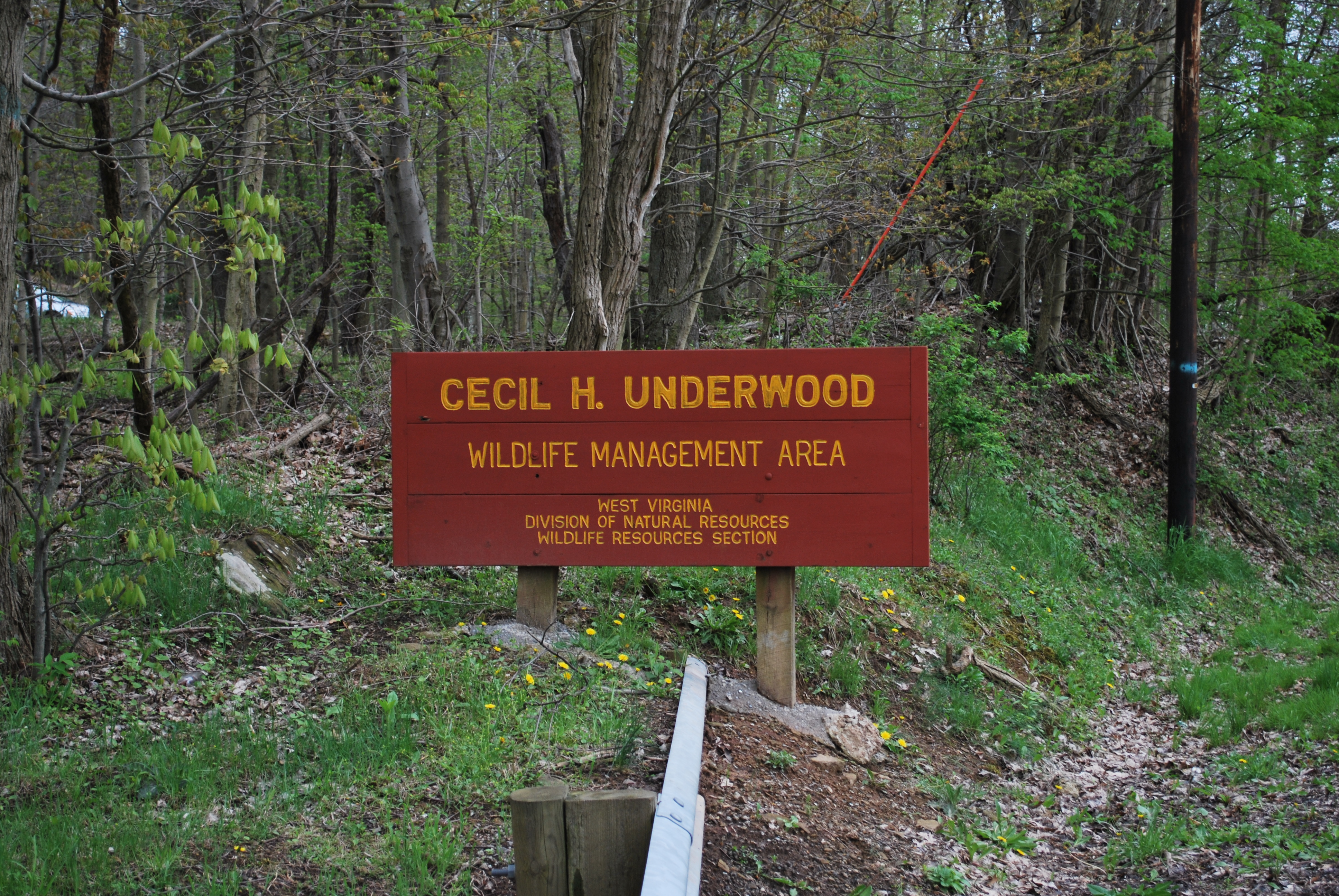 Sign for Cecil H. Underwood Wildlife Management Area in Marshall County, West Virginia.